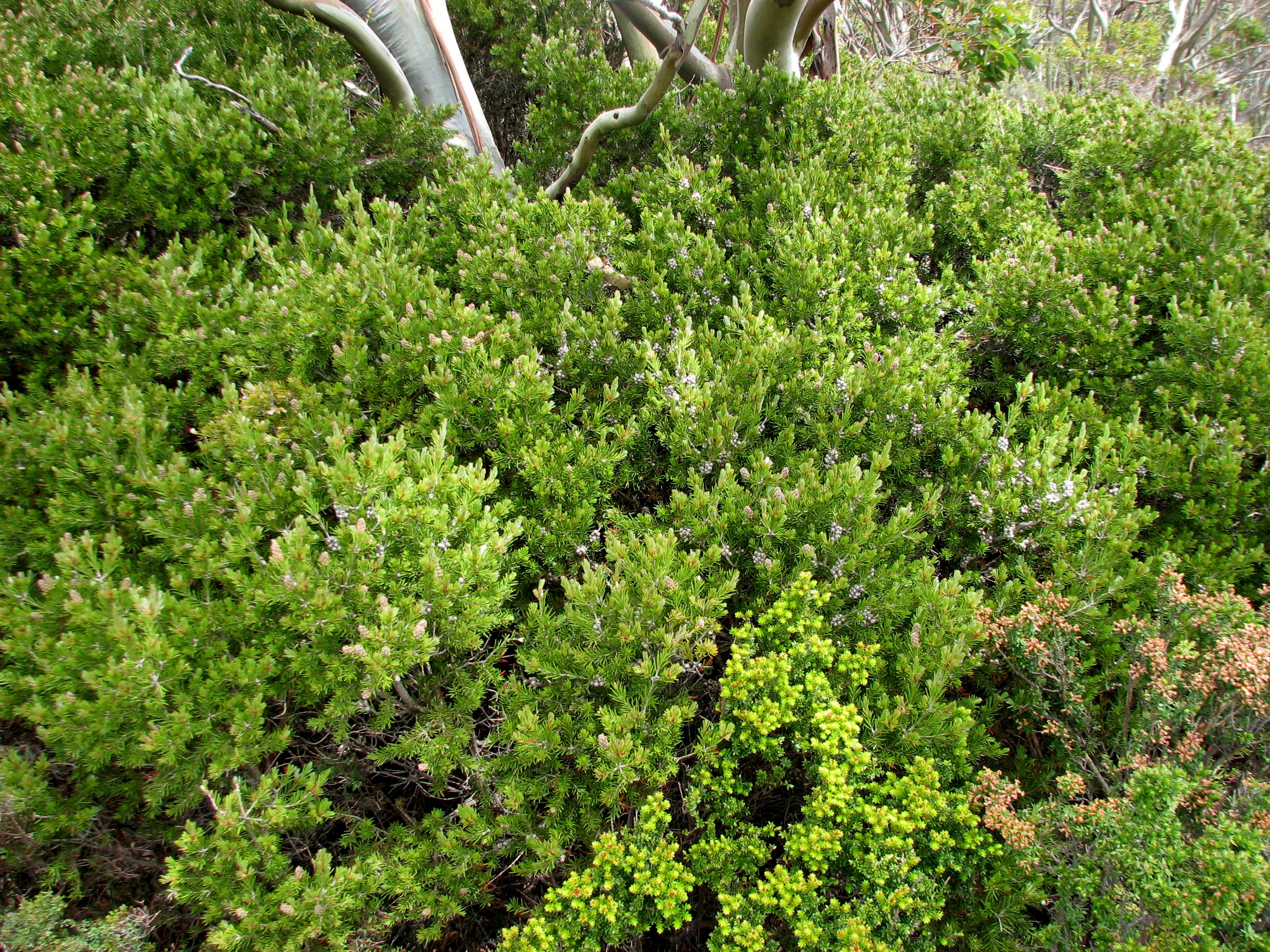 Callistemon pityoides, Baw Baw National Park, Victoria, Australia